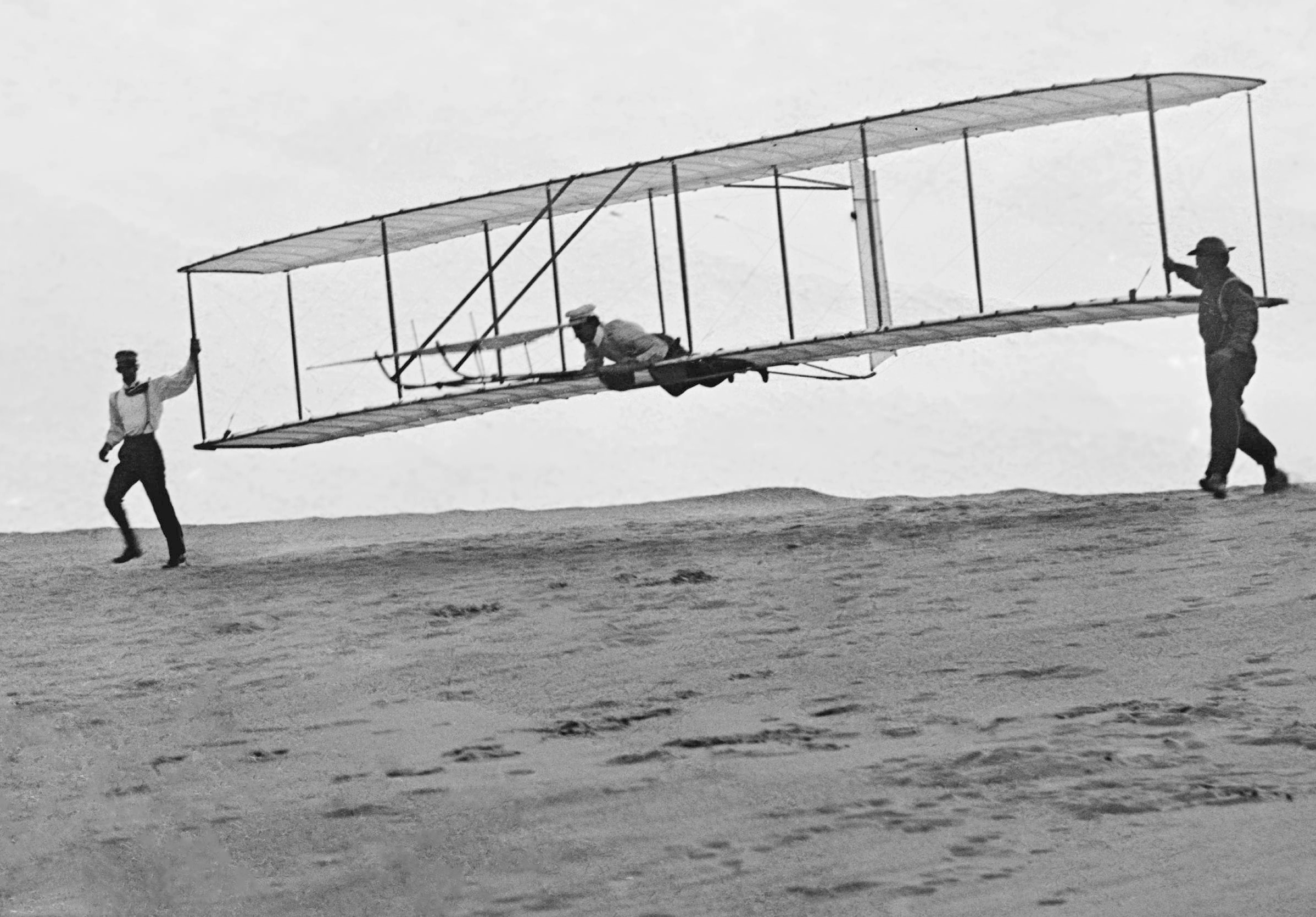 Historic photo of the Wright brothers' third test glider being launched at Kill Devil Hills, North Carolina, on October 10, 1902. Wilbur Wright is at the controls, Orville Wright is at left, and Dan Tate (a local resident and friend of the Wright brothers) is at right. The 1902 test gliders were extremely important to the development of the first powered airplane. The new glider design was based on the wind tunnel tests performed by the Wrights in 1901. The improvements to the glider included a new rudder that helped provide three-dimensional control of the aircraft.